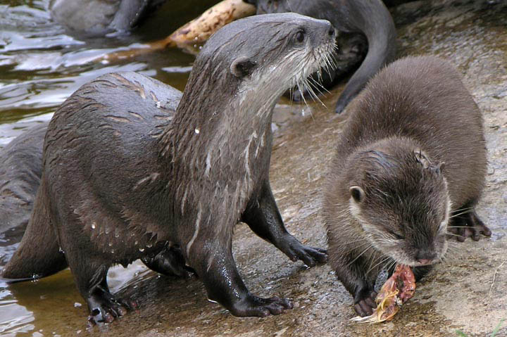 Oriental Small-clawed Otters at feeding time in Edinburgh Zoo.